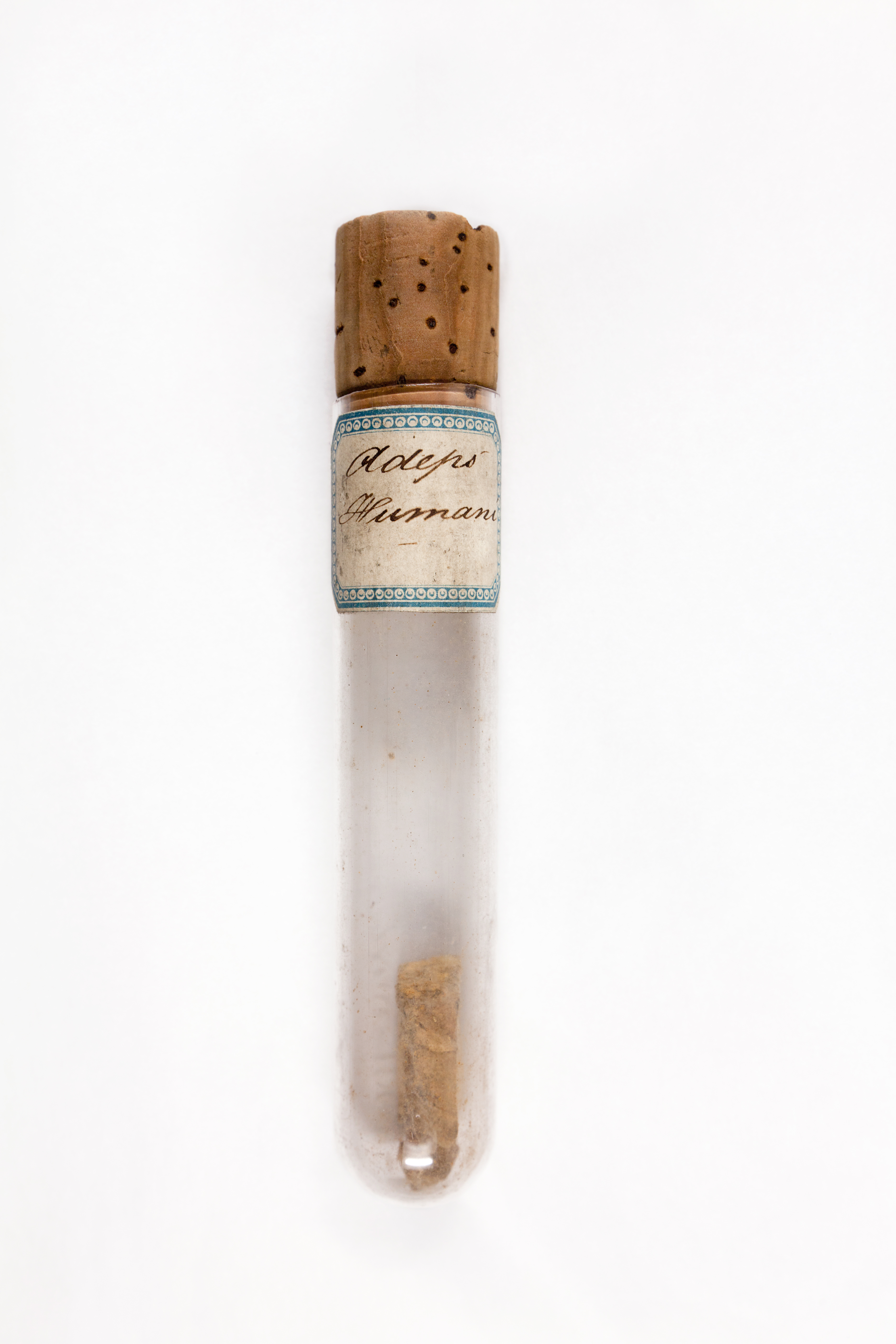 Glass vessel with inscription with content and "Adeps Humani". The object is a part of the pharmacists collectioin of Museums für Hamburgische Geschichte, Hamburg, Germany.